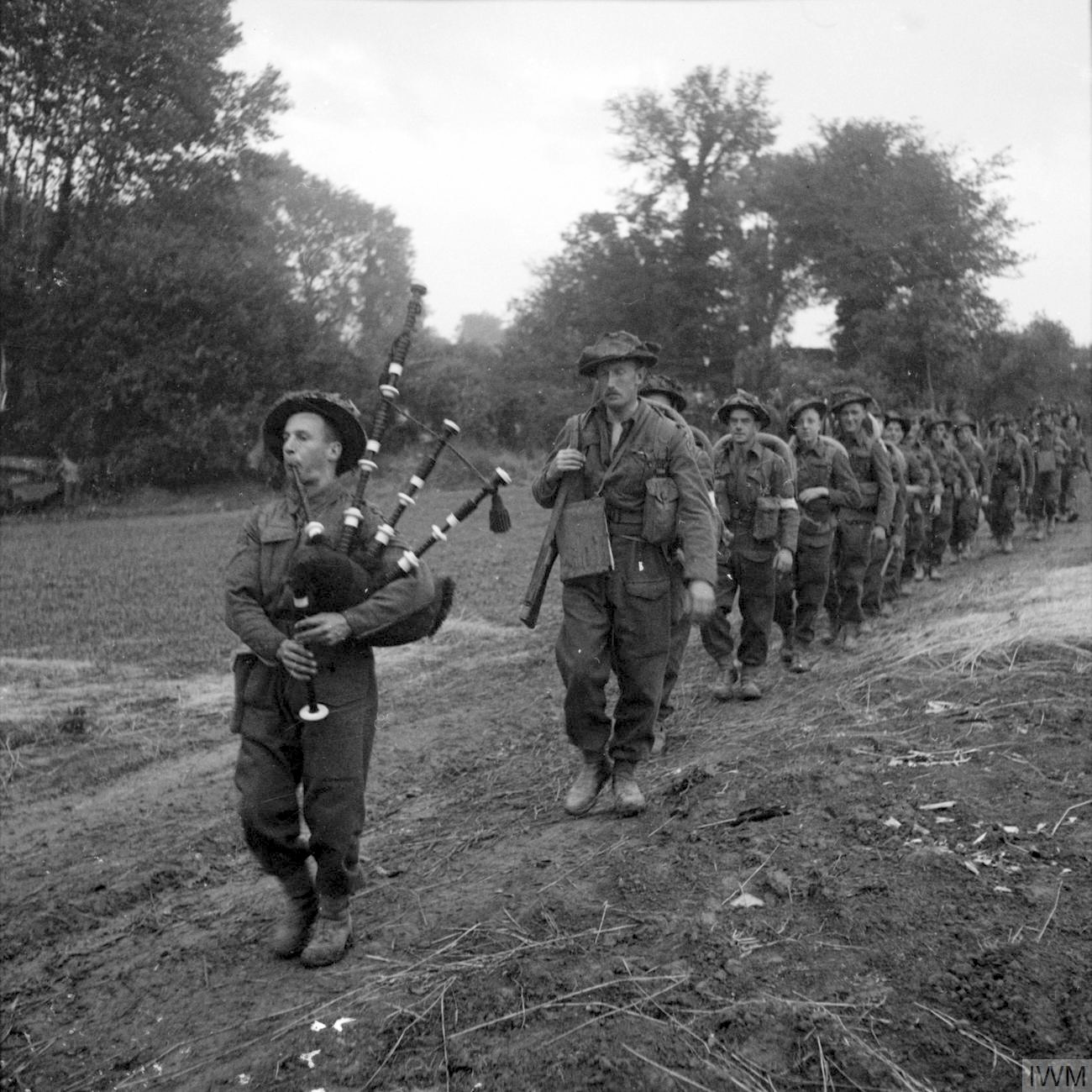 The British Army in Normandy 1944 Led by a piper, men of 2nd Argyll and Sutherland Highlanders, 15th (Scottish) Division, move forward during Operation 'Epsom', 26 June 1944.